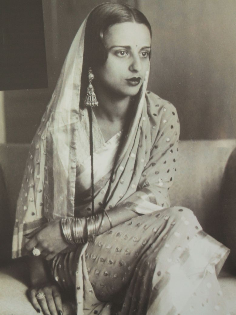 Amrita Sher-Gil in sari.